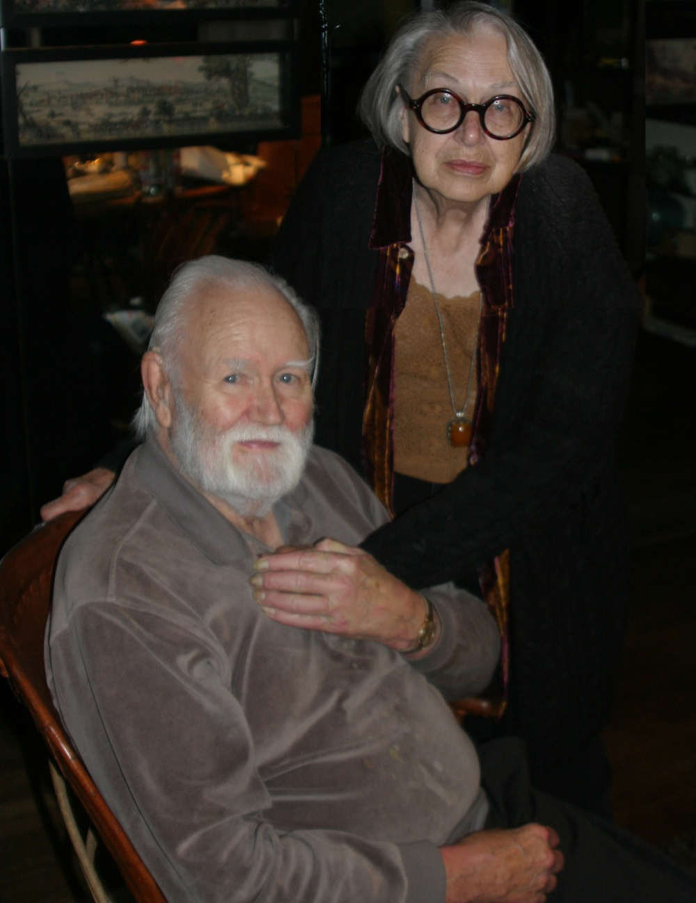 Just past Midnite his 90th birthday Hollywood CA USA by Kirk Maillet combination of two images taken back to back, left IB after Cleo rightLumal (talk) 07:21, 7 December 2007 (UTC)